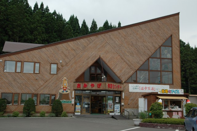 Assabu, Michinoeki, Hokkaido, Japan on September 2005. 道の駅あっさぶ (2005年9月撮影) Photographer ほくなん, this work is in PD